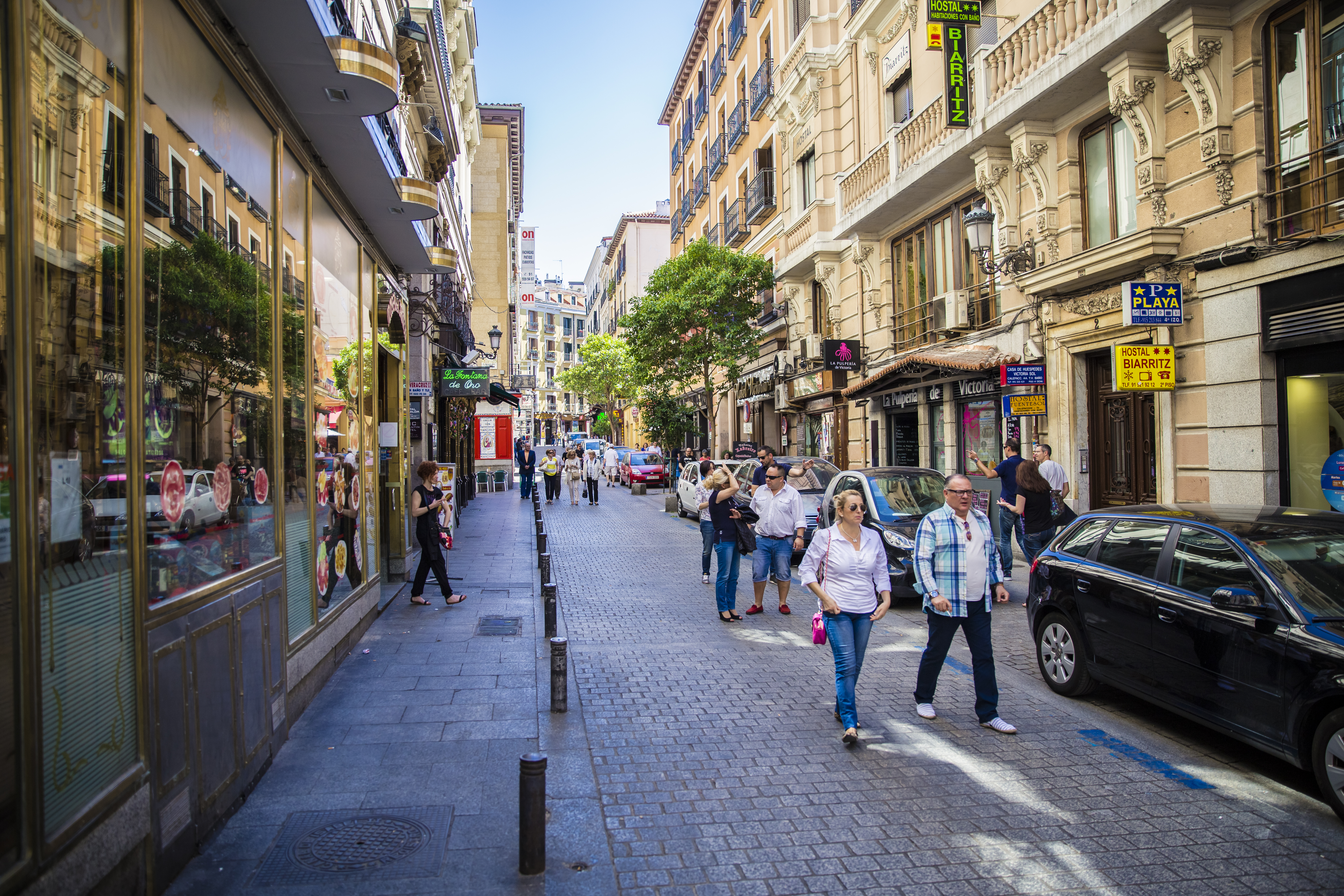 Tour around the City of Madrid Spain